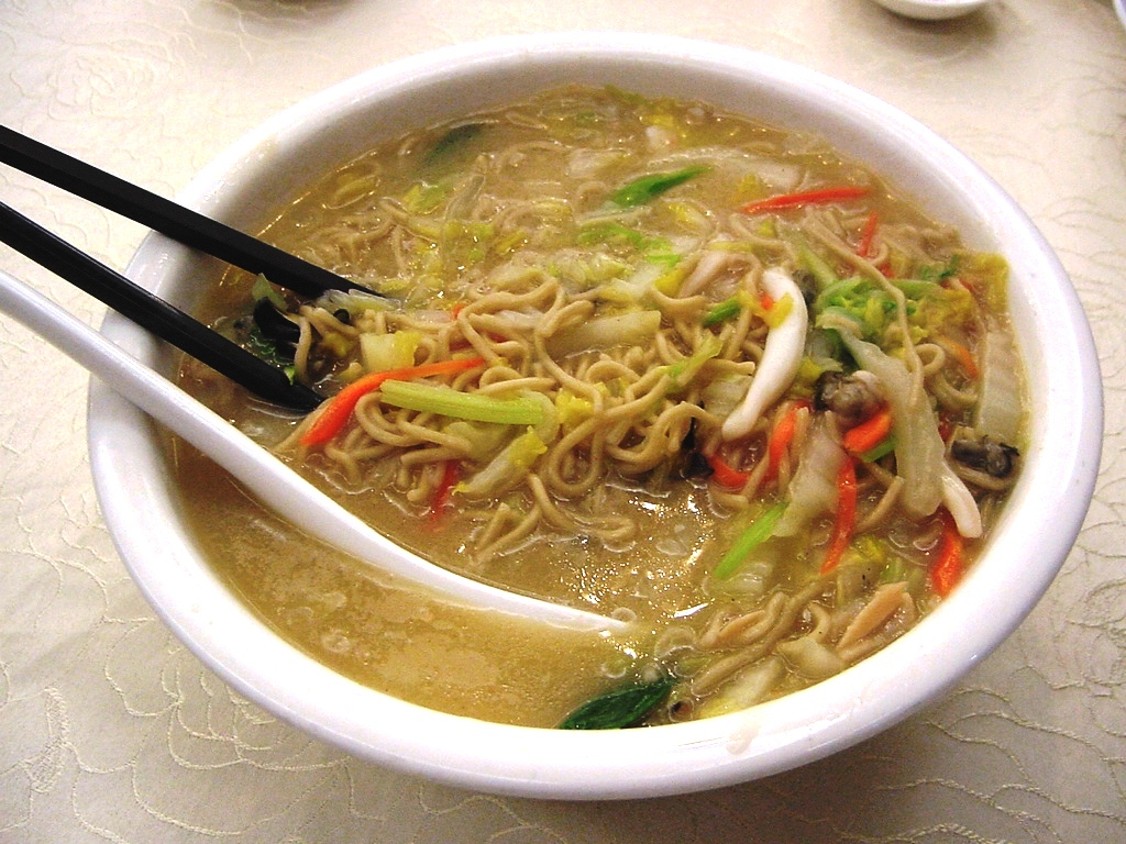 Haixian Menmian or Seafood noodles Fuqing style